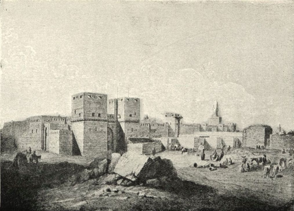 General view of the gate. Line Drawing.